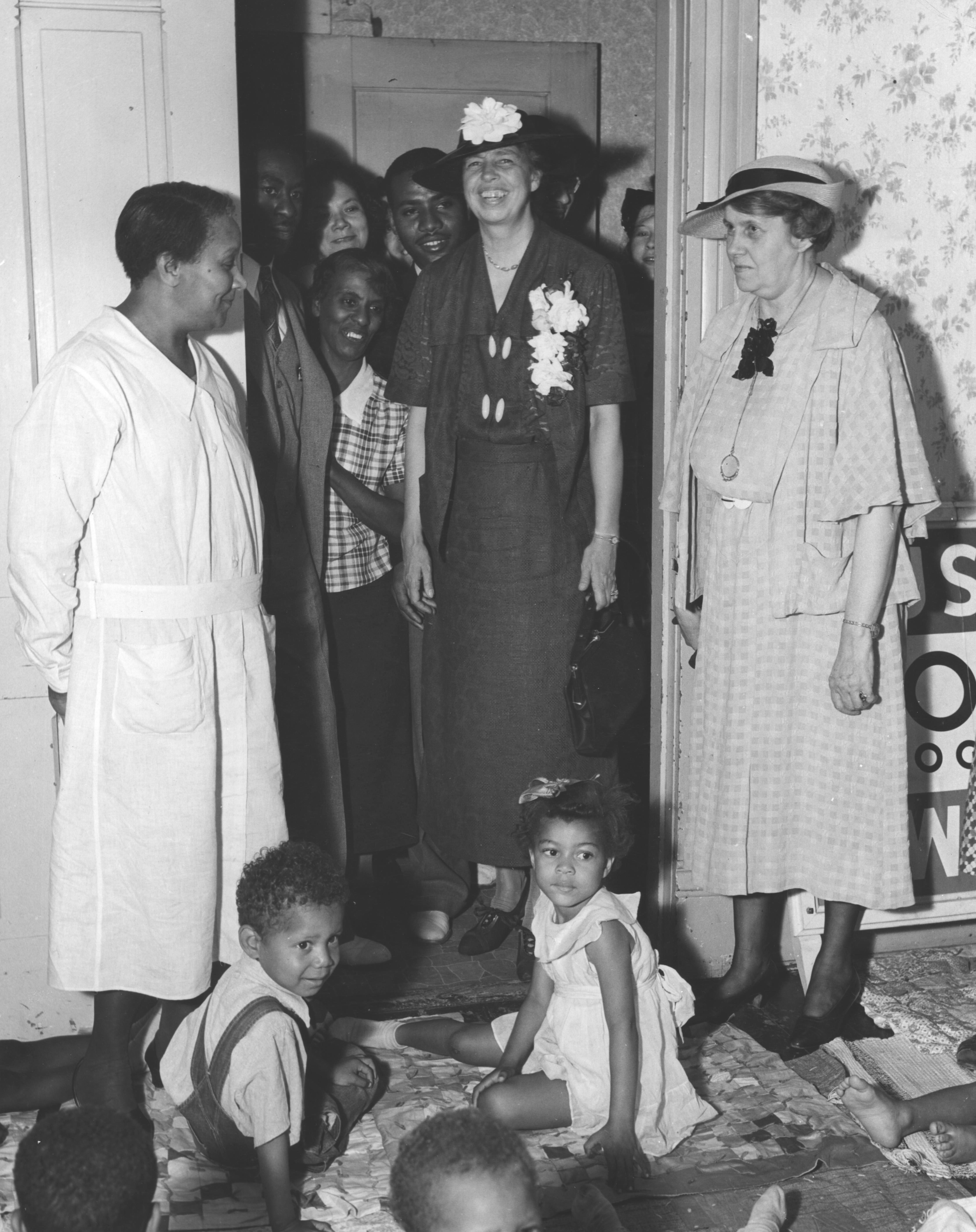 Eleanor Roosevelt visiting a WPA nursery school for African Americans in Des Moines, Iowa. June 8, 1936.